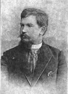 Alexander Galizki {chess composer}